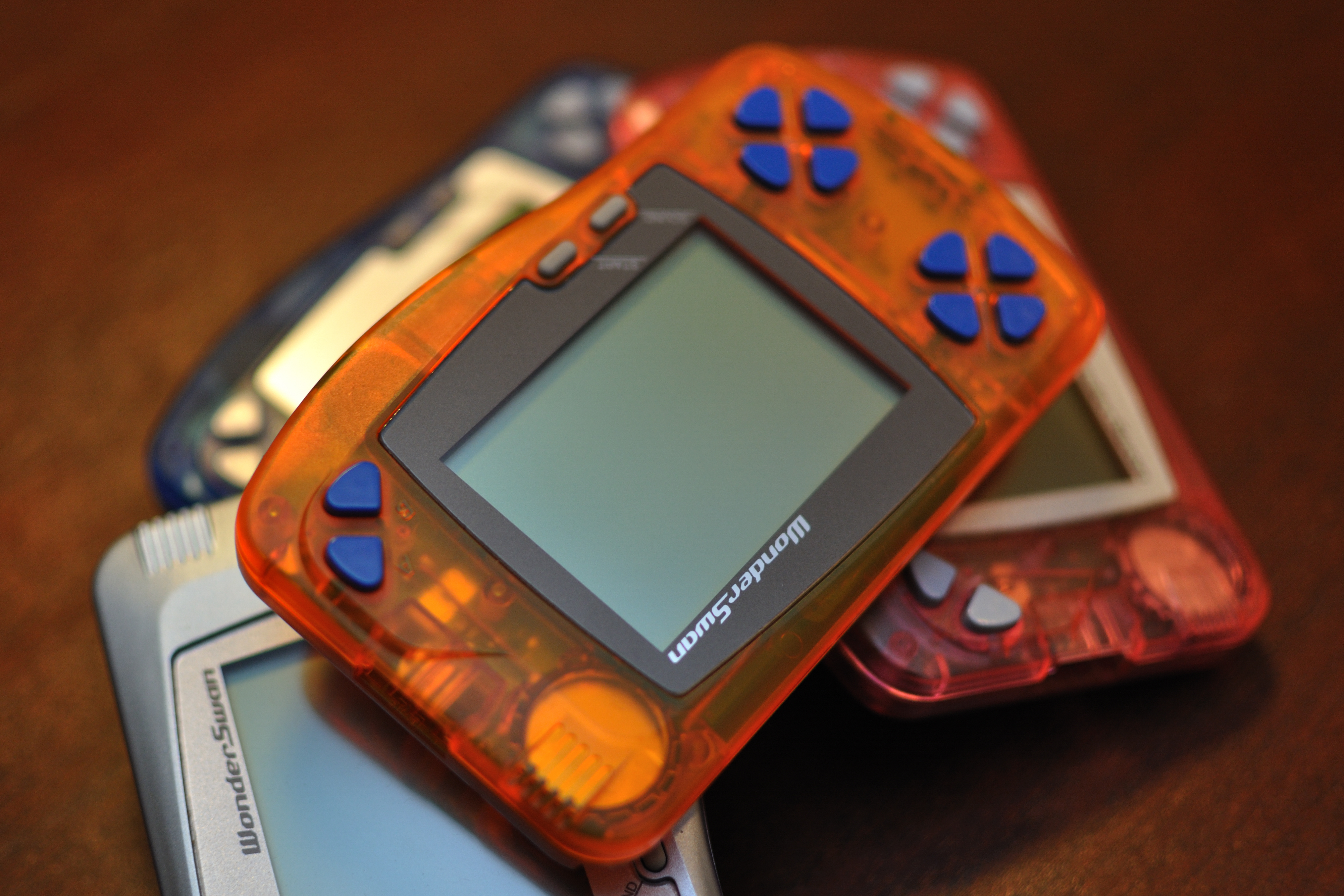 Many consoles of WonderSwan.